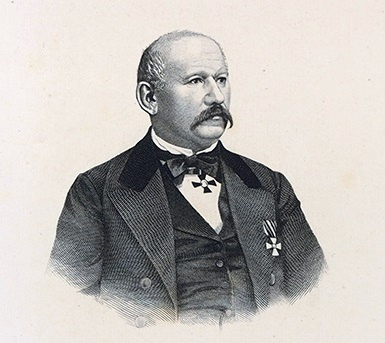 Oleksiy Petrovych Strozhenko(1806-1874)